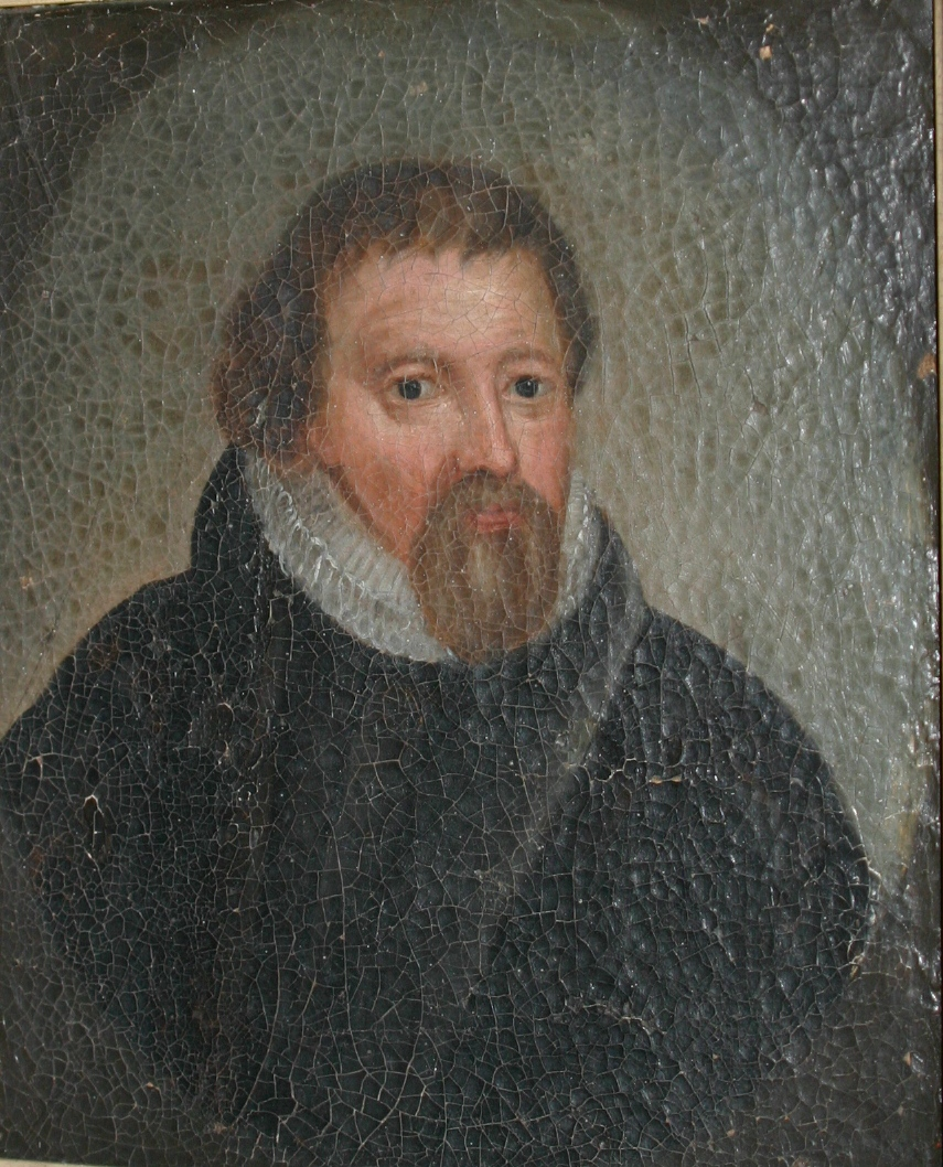 Portrait of the Danish reformer Hans Tausen as a young man.